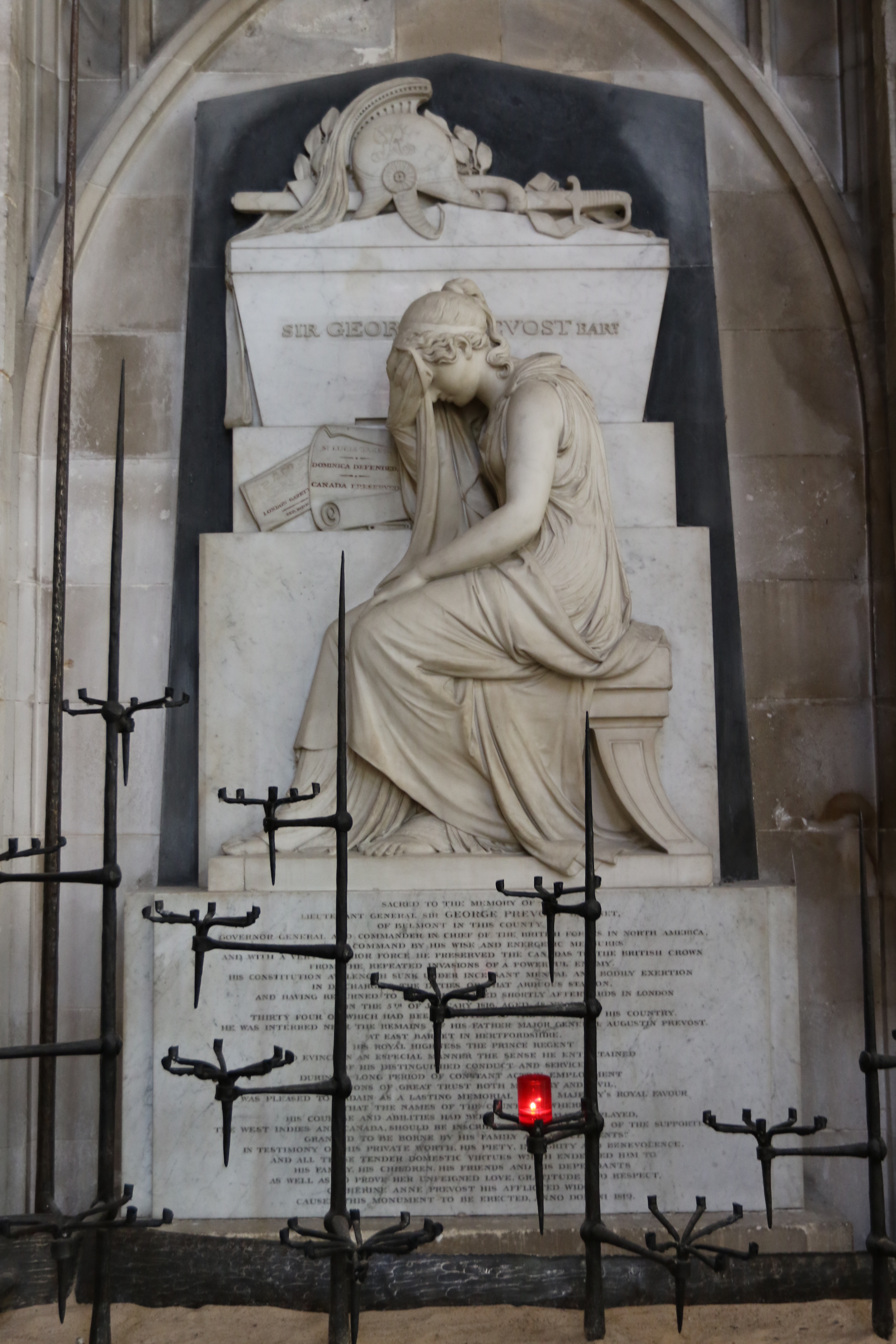 SIR GEORGE PREVOST BART / SACRED TO THE MEMORY OF / LIEUTENANT GENERAL SIR GEORGE PREVOST BARONET / OF BELMONT IN THIS COUNTY / GOVERNOR GENERAL AND COMMANDER IN CHIEF OF THE BRITISH FORCES IN NORTH AMERICA, / IN WHICH COMMAND BY HIS WISE AND ENERGETIC MEASURES / AND WITH A VERY INFERIOR FORCE HE PRESERVED THE CANADAS TO THE BRITISH CROWN / FROM THE REPEATED INVASIONS OF A POWERFUL ENEMY. / HIS CONSTITUTION AT LENGTH SUNK UNDER INCESSANT MENTAL AND BODILY EXERTION / IN DISCHARGING THE DUTIES OF THAT ARDUOUS STATION. / AND HAVING RETURNED TO ENGLAND HE DIED SHORTLY AFTERWARDS IN LONDON / ON THE 5TH OF JANUARY 1816. AGED 48 YEARS. / THIRTY FOUR OF WHICH HAD BEEN DEVOTED TO THE SERVICE OF HIS COUNTRY. / HE WAS INTERRED NEAR THE REMAINS OF HIS FATHER MAJOR-GENERAL AUGUSTIN PREVOST. / AT EAST BARNET IN HERTFORSHIRE. / HIS ROYAL HIGHNESS THE PRINCE REGENT / 'TO EVINCE IN AN ESPECIAL MANNER THE SENSE HE ENTERTAINED / OF HIS DISTINGUISHED CONDUCT AND SERVICES / DURING A LONG PERIOD OF CONSTANT ACTIVE EMPLOYMENT / IN STATIONS OF GREAT TRUST BOTH MILITARY AND CIVIL. / WAS PLEASED TO ORDAIN AS A LASTING MEMORIAL OF HIS MAJESTY'S ROYAL FAVOUR / THAT THE NAMES OF THE COUNTRIES WHERE / HIS COURAGE AND ABILITIES HAD BEEN MOST SIGNALLY DISPLAYED. / THE WEST INDIES AND CANADA SHOULD BE INSCRIBED ON THE BANNERS OF THE SUPPORTERS / GRANTED TO BE BORNE BY HIS FAMILY AND DESCENDENTS'. / IN TESTIMONY OF HIS PRIVATE WORTH HIS PIETY, INTERGRITY AND BENEVOLENCE, / AND ALL THOSE TENDER DOMESTIC VIRTUES WHICH ENDEARED HIM TO / HIS FAMILY HIS CHILDREN HIS FRIENDS AND HIS DESCENDENTS / AS WELL AS TO PROVE HER UNFEIGNED LOVE, GRATITUDE AND RESPECT / CATHERINE ANNE PREVOST HIS AFFLICTED WIDOW / CAUSED THIS MONUMENT TO BE ERECTED ANNO DOMINI 1819.